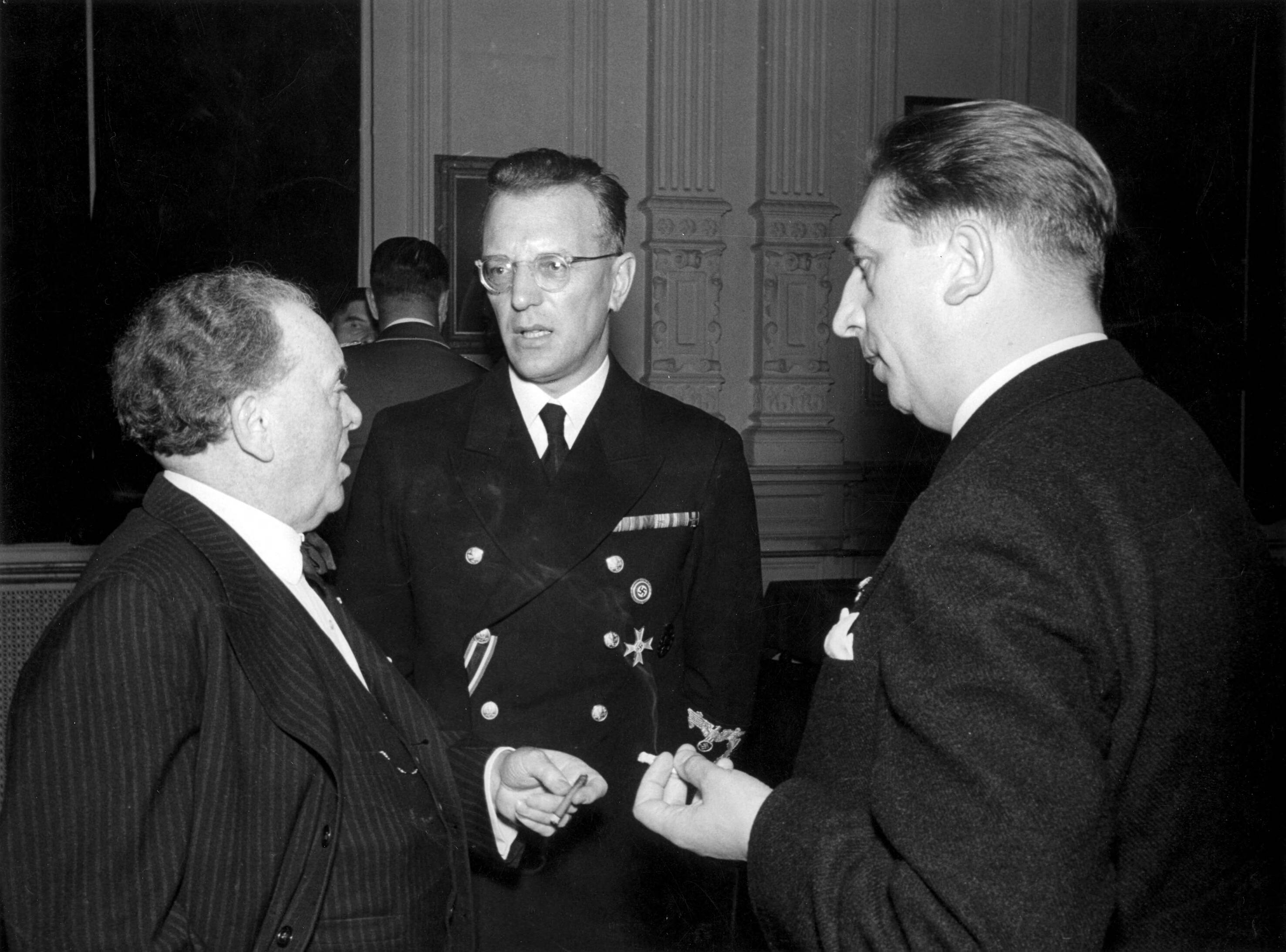 Conductor Willem Mengelberg (left) talking to Reichskommissar Arthur Seyss-Inquart and Prof. Jäger. Concertgebouw Amsterdam [1942].